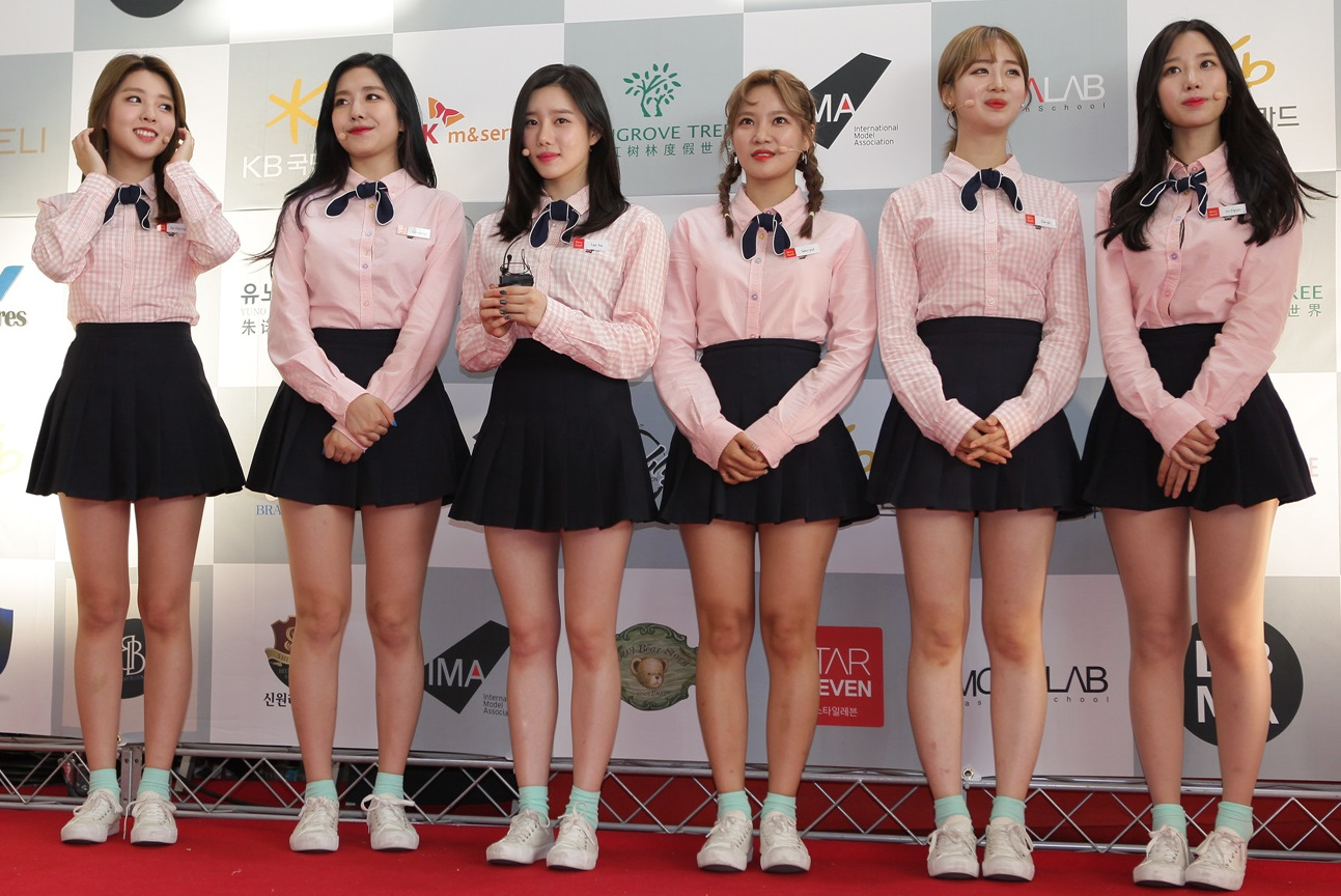 Berry Good at LBMA Star Awards, 8 June 2017